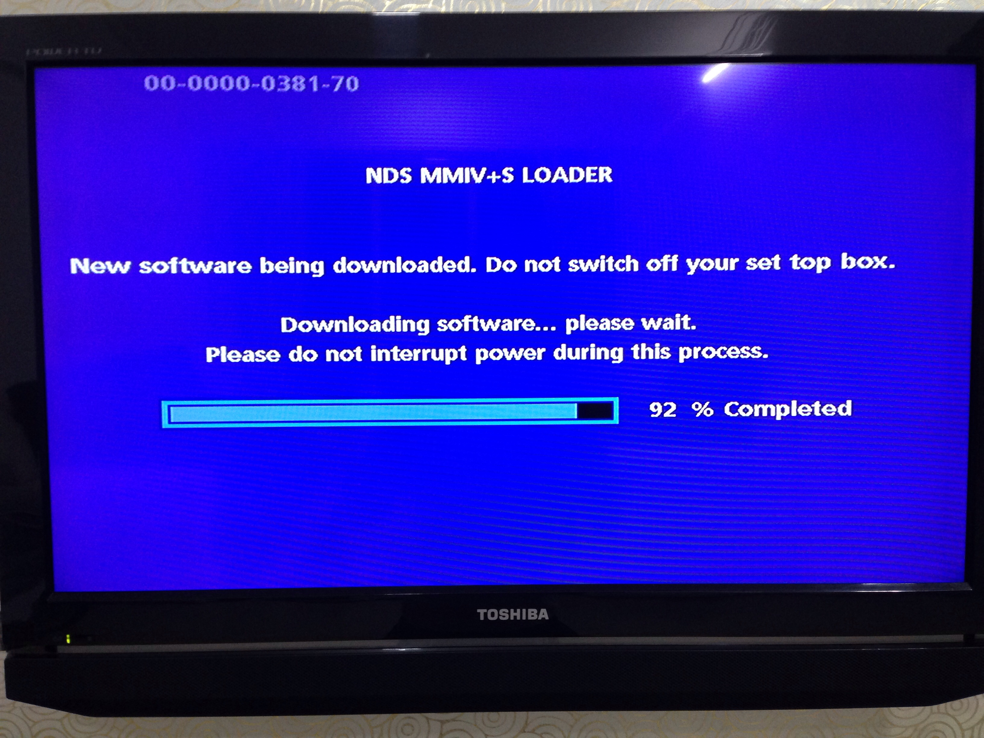 Firmware of a set-top box being updated. The set-top box is connected to a Toshiba LCD television.